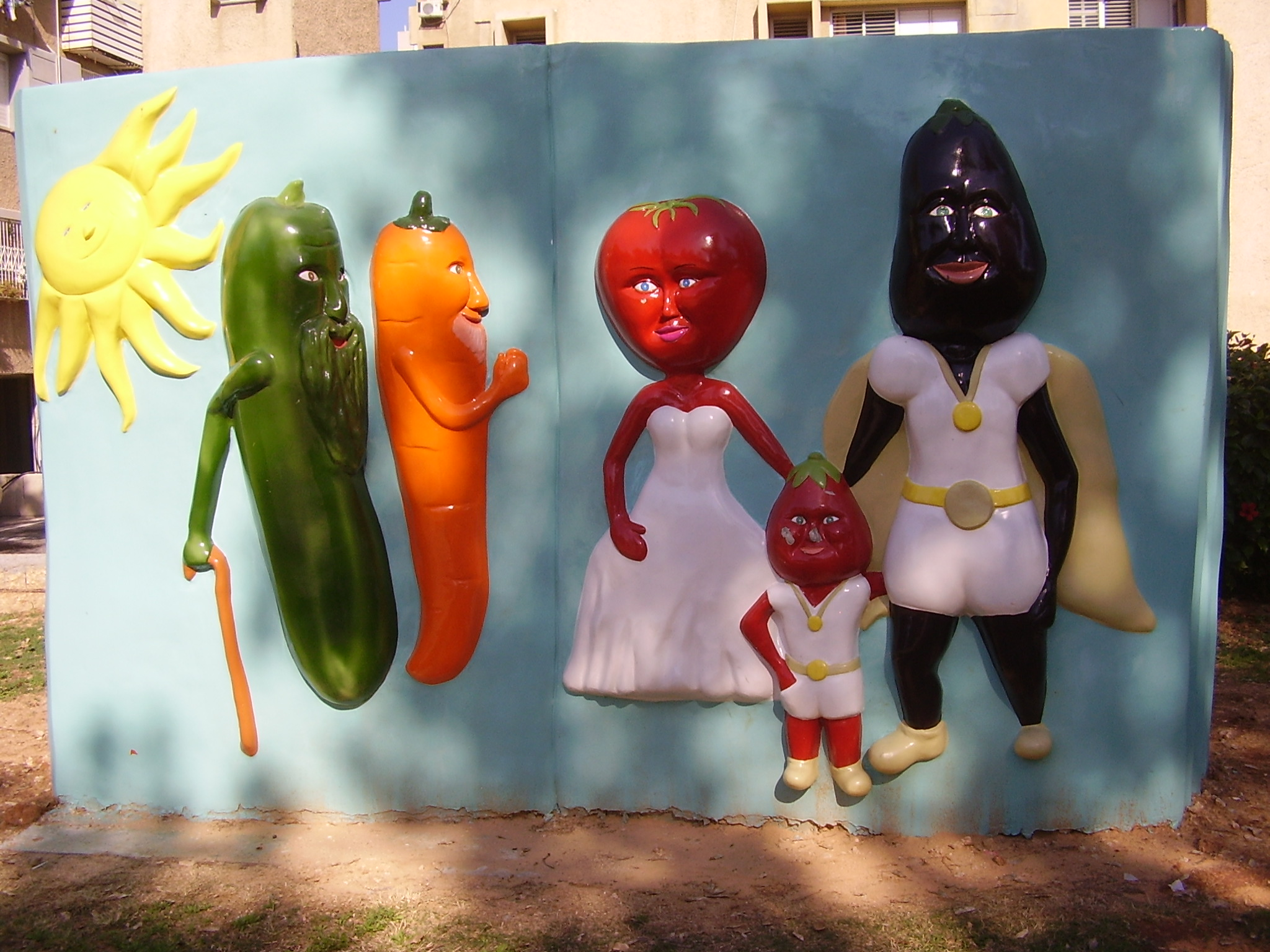 "Garden Wedding" garden in Holon